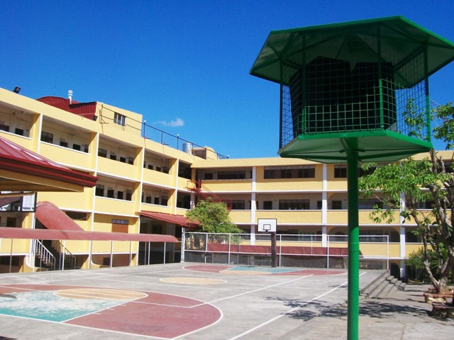 St. Catherine Bldg, The Building of Basic Education Department (Elementary & Highschool),and the CITE.